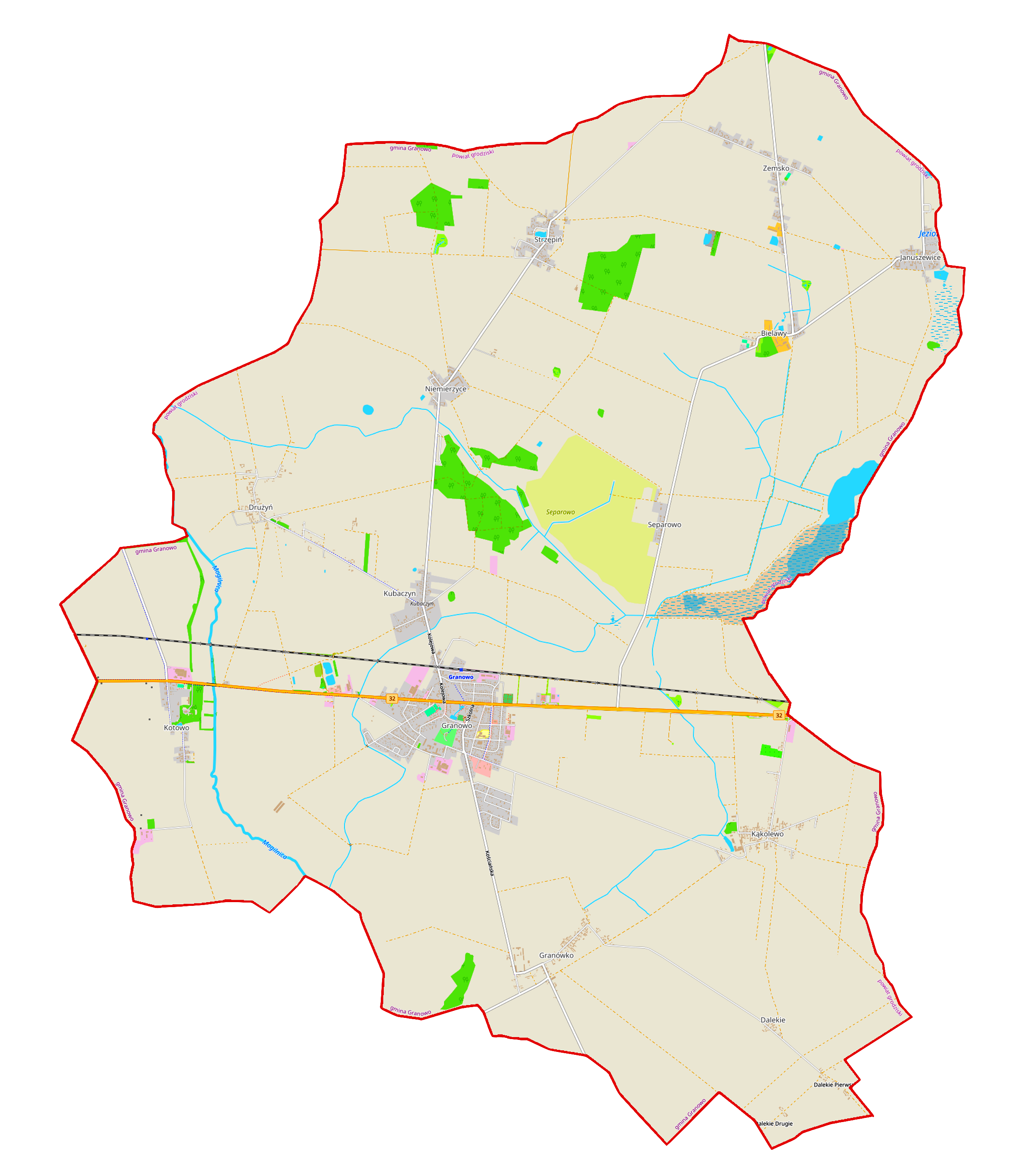 Map of Gmina Granowo, Poland This map of Granowo (gmina) was created from OpenStreetMap project data, collected by the community. This map may be incomplete, and may contain errors. Don't rely solely on it for navigation. Border coordinates52.287516.4637←↕→16.616552.1765